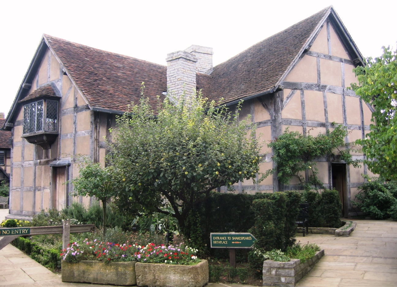 Shakespeare's Birthplace, rear view, Stratford-upon-Avon, Warwickshire, England.